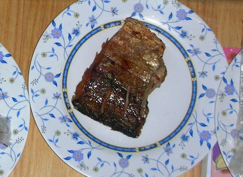 Deep fried chunk of pickled (Pla som) Barbonymus gonionotus (Pla Taphian)